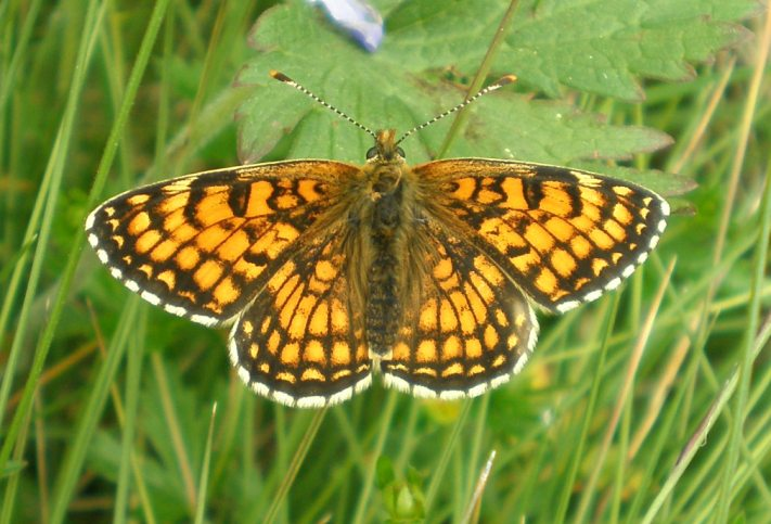 Near Canillo, Andorra.